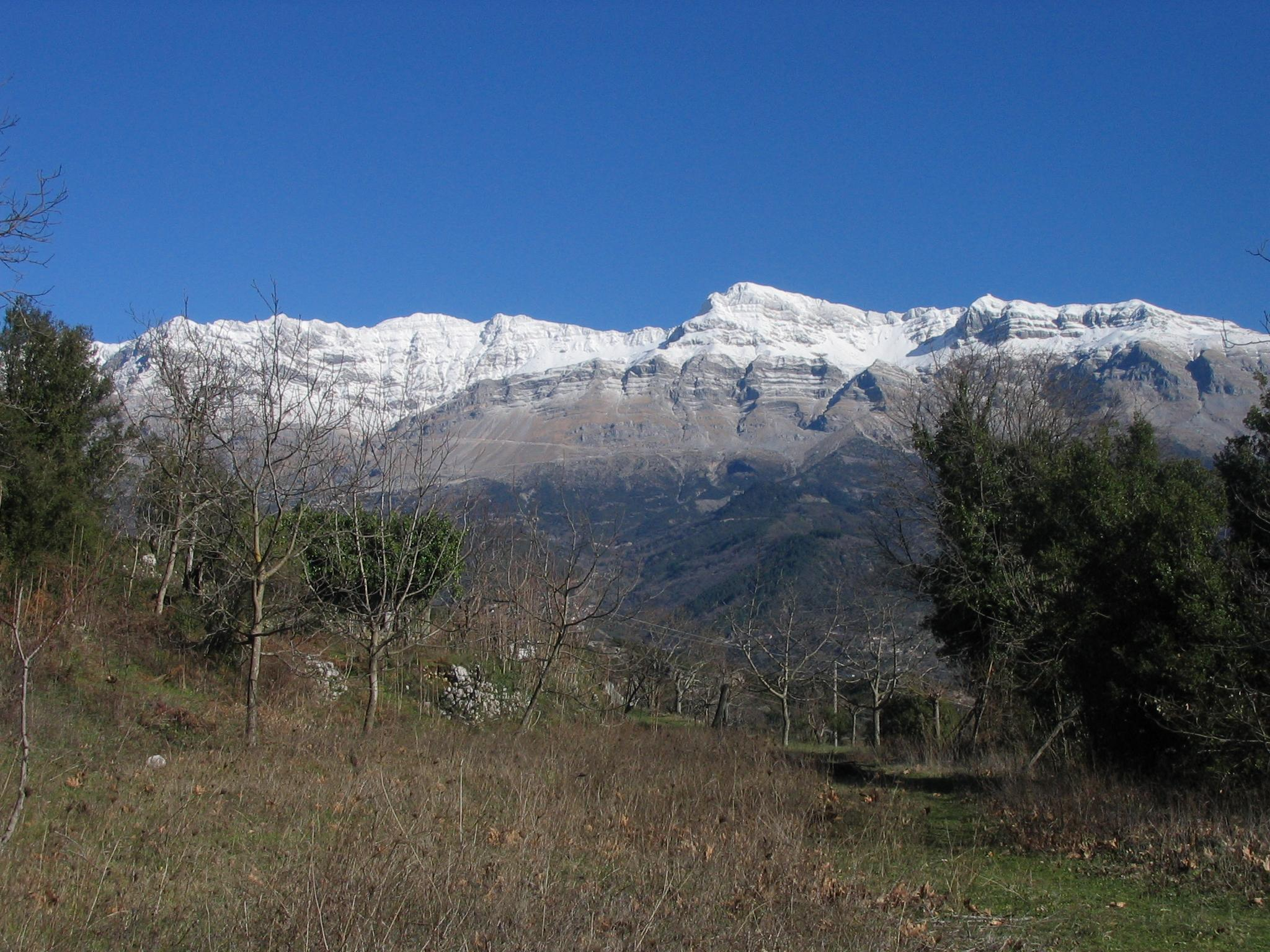 Tzoumerka, mountains in Arta, Greece